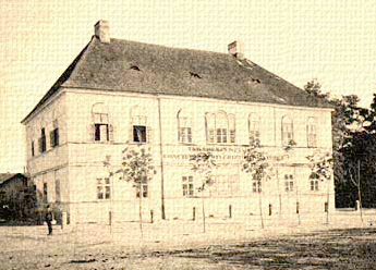 House of SAP in Vráble